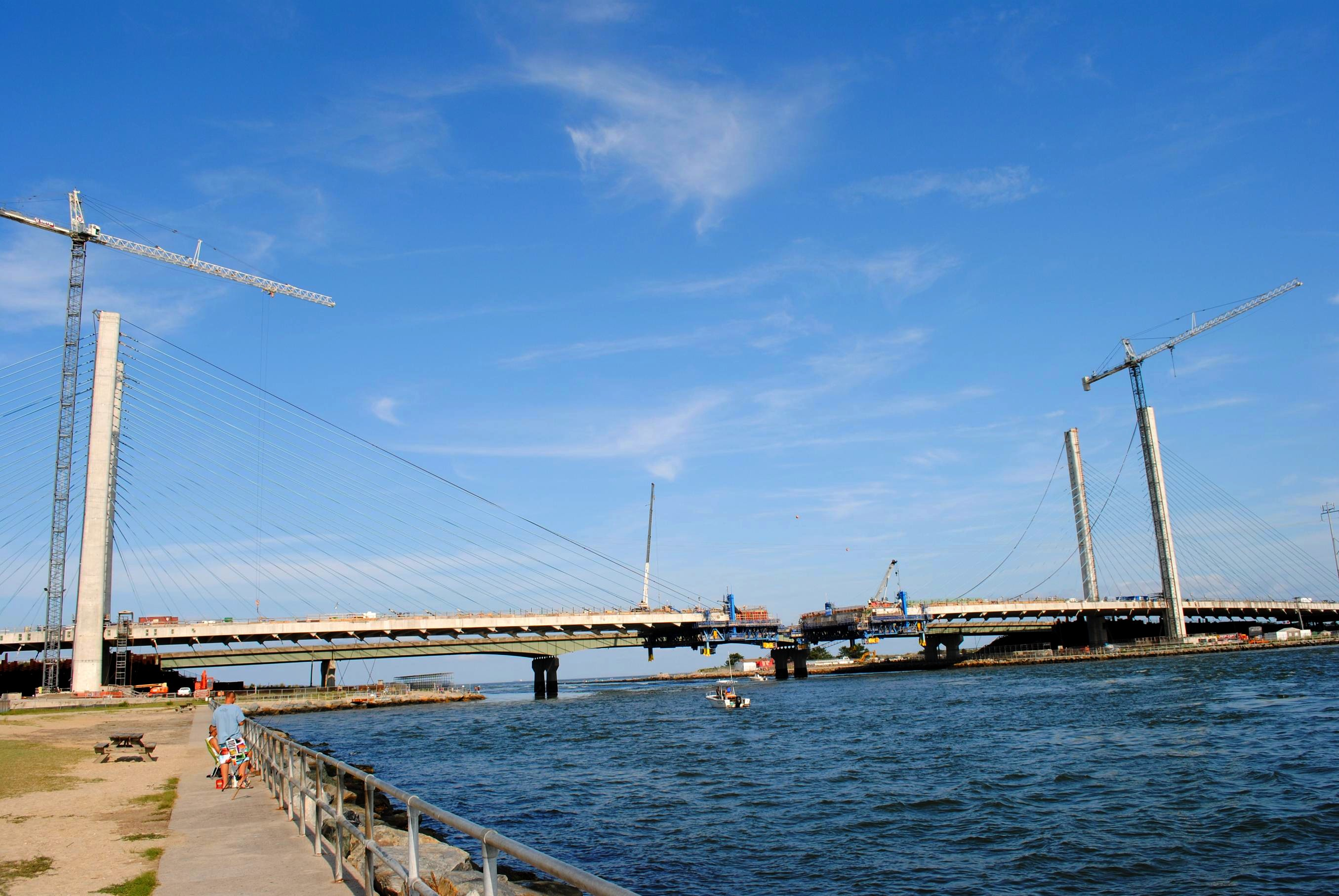 The Indian River Inlet Bridge in Sussex County, Delaware under construction